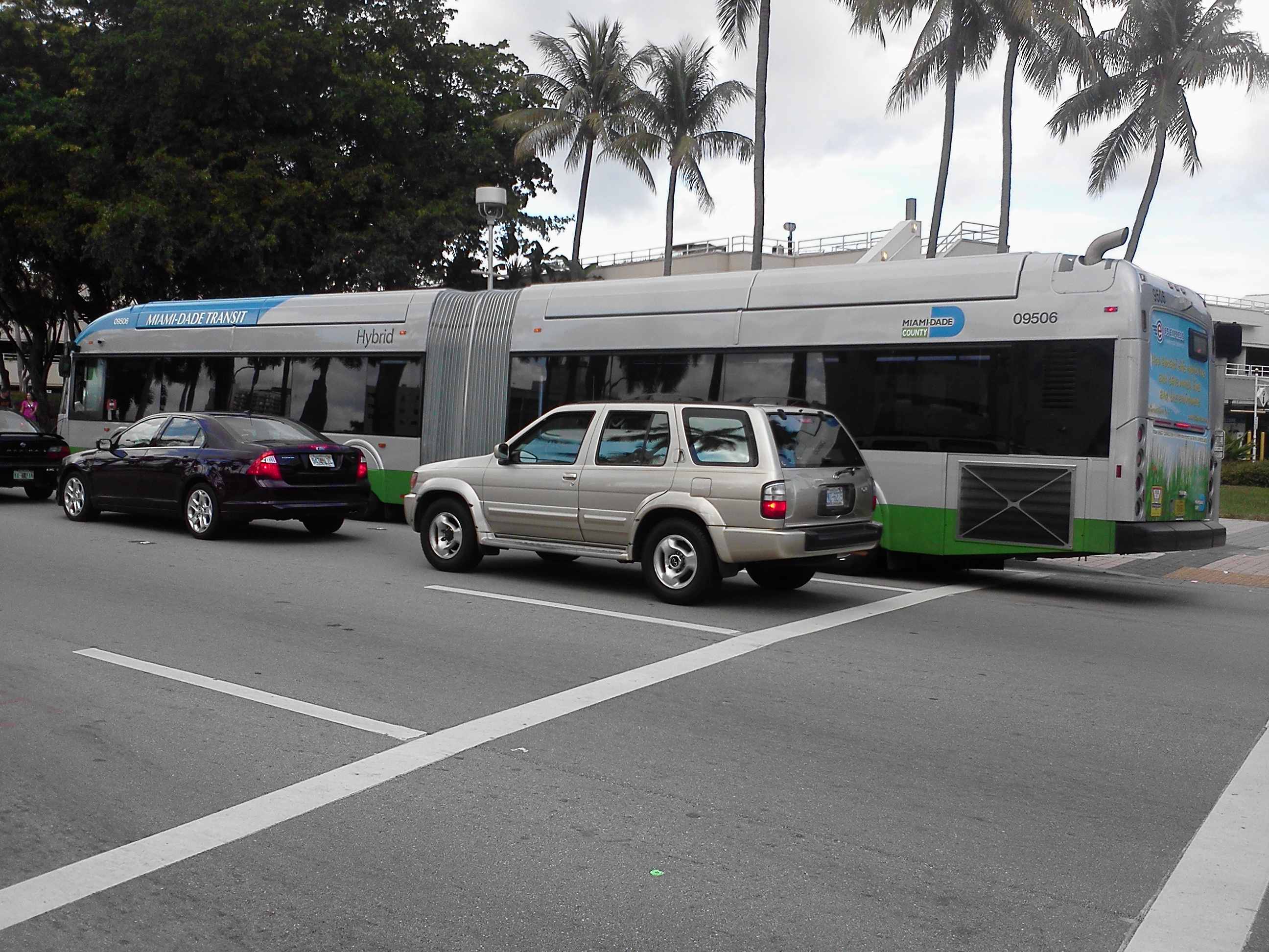 An articulating Hybrid vehicle bus on the S route of Miami-Dade Transit.